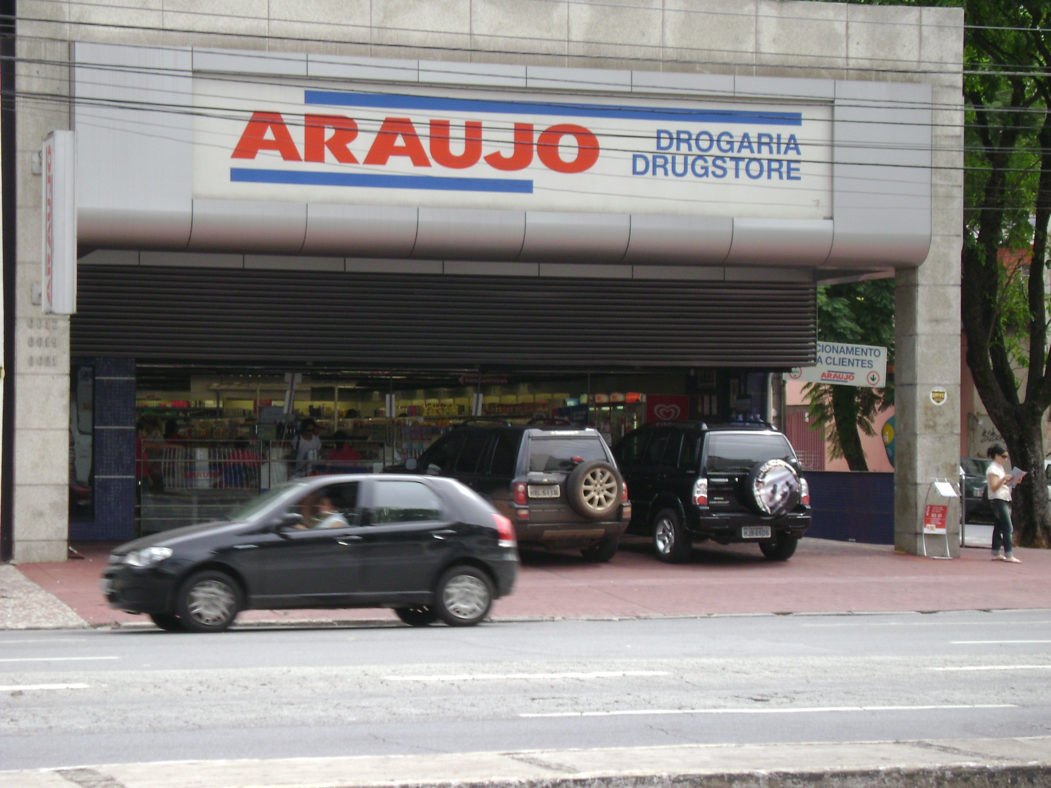 Loja da drogaria Araujo na avenida do Contorno, em Belo Horizonte, Brasil.